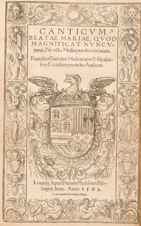 Frontispiece of Canticum Beatae Mariae published by Petrus Phalesius the Elder in Leuven in 1563